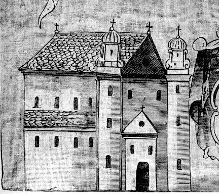 Non existent greek catholic church of Saint Nicholas in Brest.